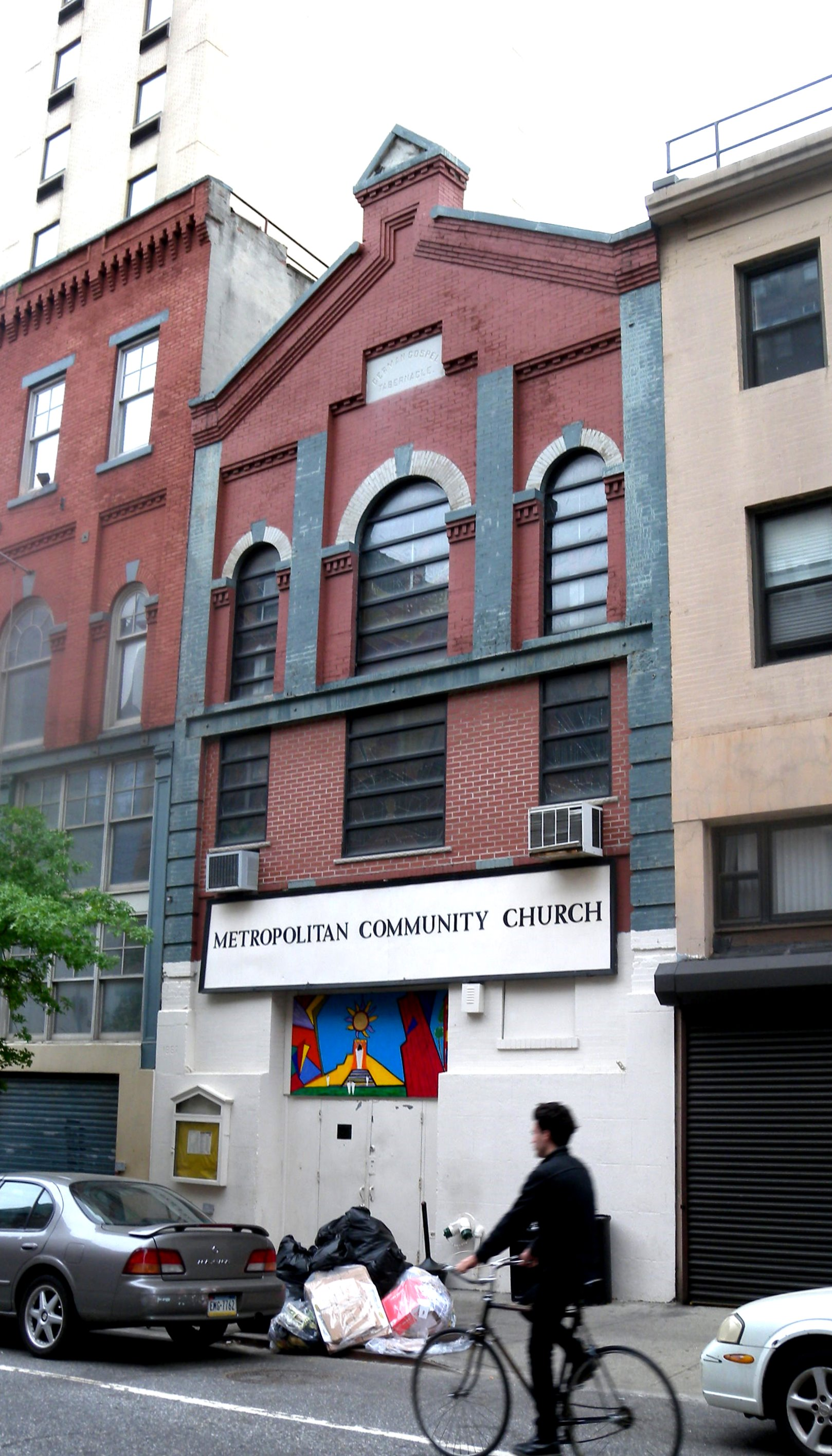 Looking south at Metropolitan Community Church of New York on a cloudy day.